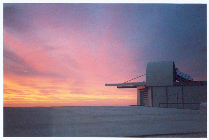 Sunset from IOTA observatory. In the foreground, the roof of the control and technical support room. In the background, an open dome showing the tube of one siderostat.